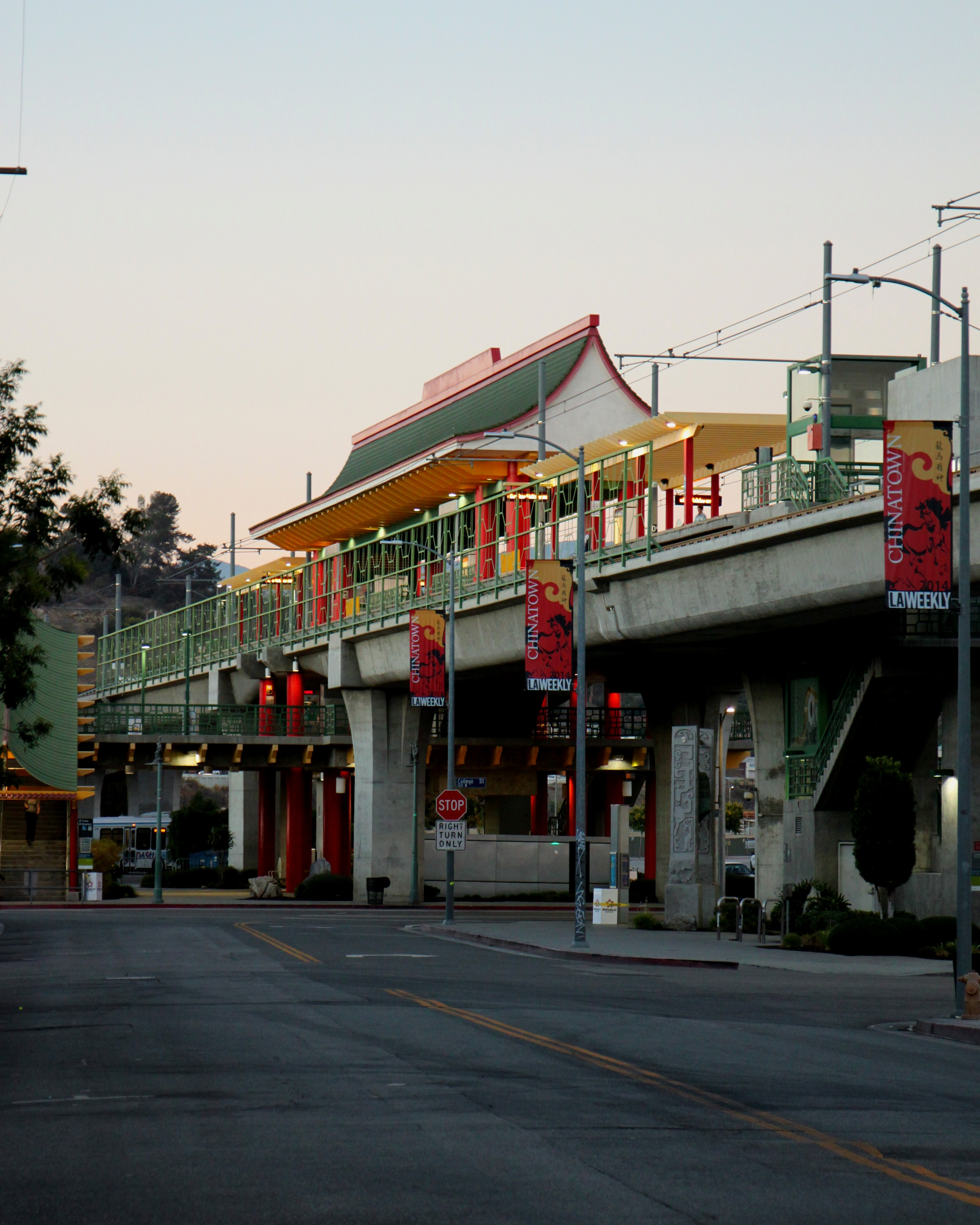 Down Town Los Angeles Metro Gold Line Train Station